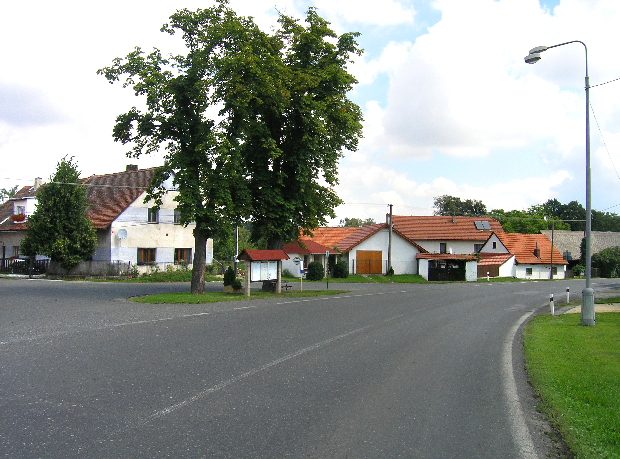 Common in Štipoklasy, Czech Republic